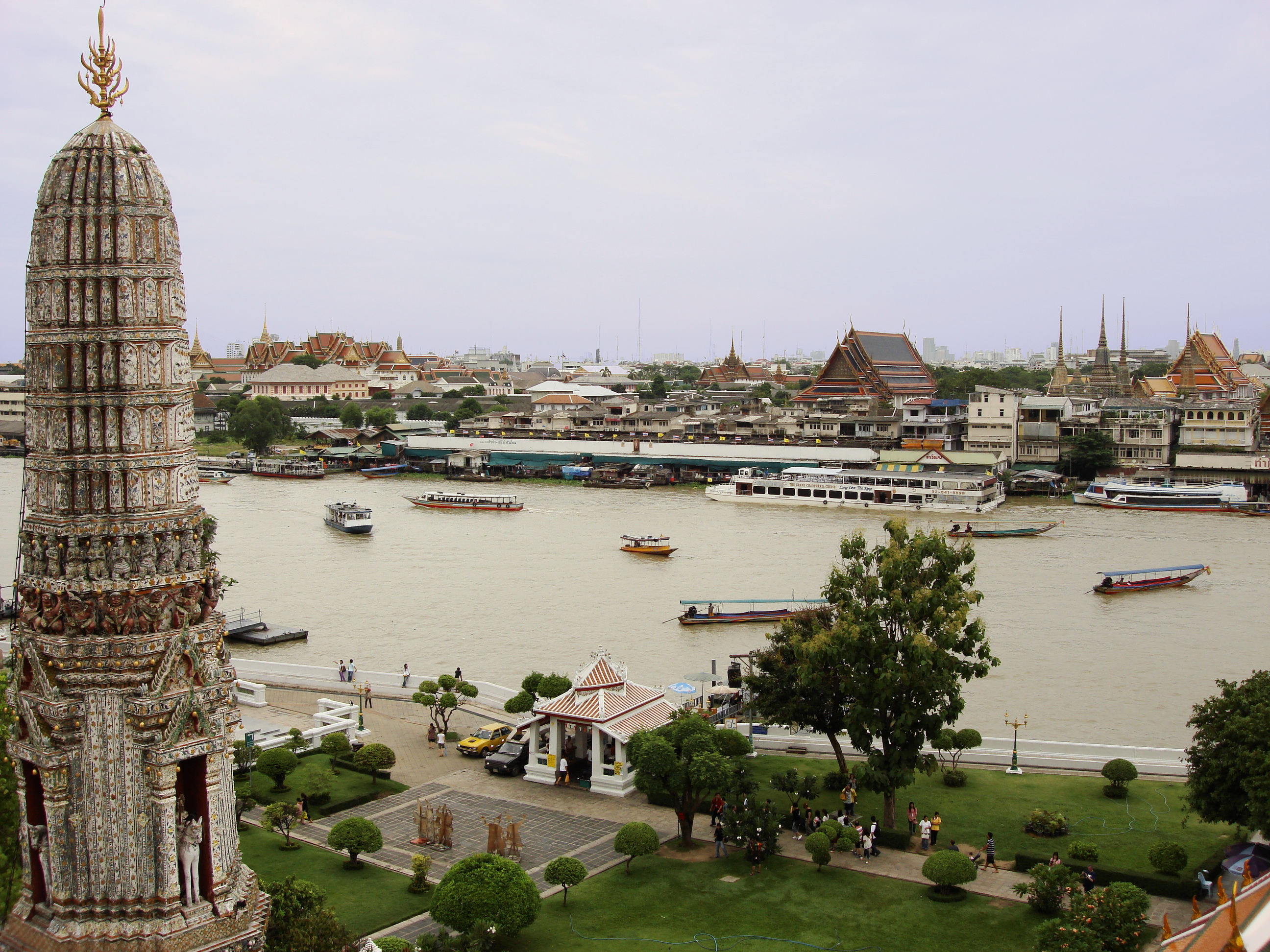 Picture taken from the central prang (tower) at Wat Arun. On the left, one of the 4 smaller towers found within the temple and the river Nam Chao Phraya. Across it, Wat Pho (Right) and further away, the Grand Palace can be seen (Centre). --- Wat Arun (Temple of the Dawn, perhaps so named because the first light of morning is reflected off the surface of the temple with a pearly iridescence) is a famous Buddhist temple (wat) in Bangkok. The outstanding feature of Wat Arun is its central prang (Khmer-style tower). Steep steps lead to the two terraces. The height is reported by different sources as between 66,80 m and 86 m. The corners are surrounded by 4 smaller satellite prangs. The prangs are decorated by seashells and bits of porcelain which had previously been used as ballast by boats coming to Bangkok from China. Around the base of the prangs are various figures of ancient Chinese soldiers and animals. Over the second terrace are four statues of the Hindu god Indra riding on Erawan. At the riverside are 6 pavilions (sala) in Chinese style. The pavilions are made of green granite and contain landing bridges. Next to the prangs is the Ordination Hall with the Niramitr Buddha image supposedly designed by King Rama II. The front entrance of the Ordination Hall has a roof with a central spire, decorated in coloured ceramic and stuccowork sheated in coloured china. There are 2 demons, or temple guardian figures in front.